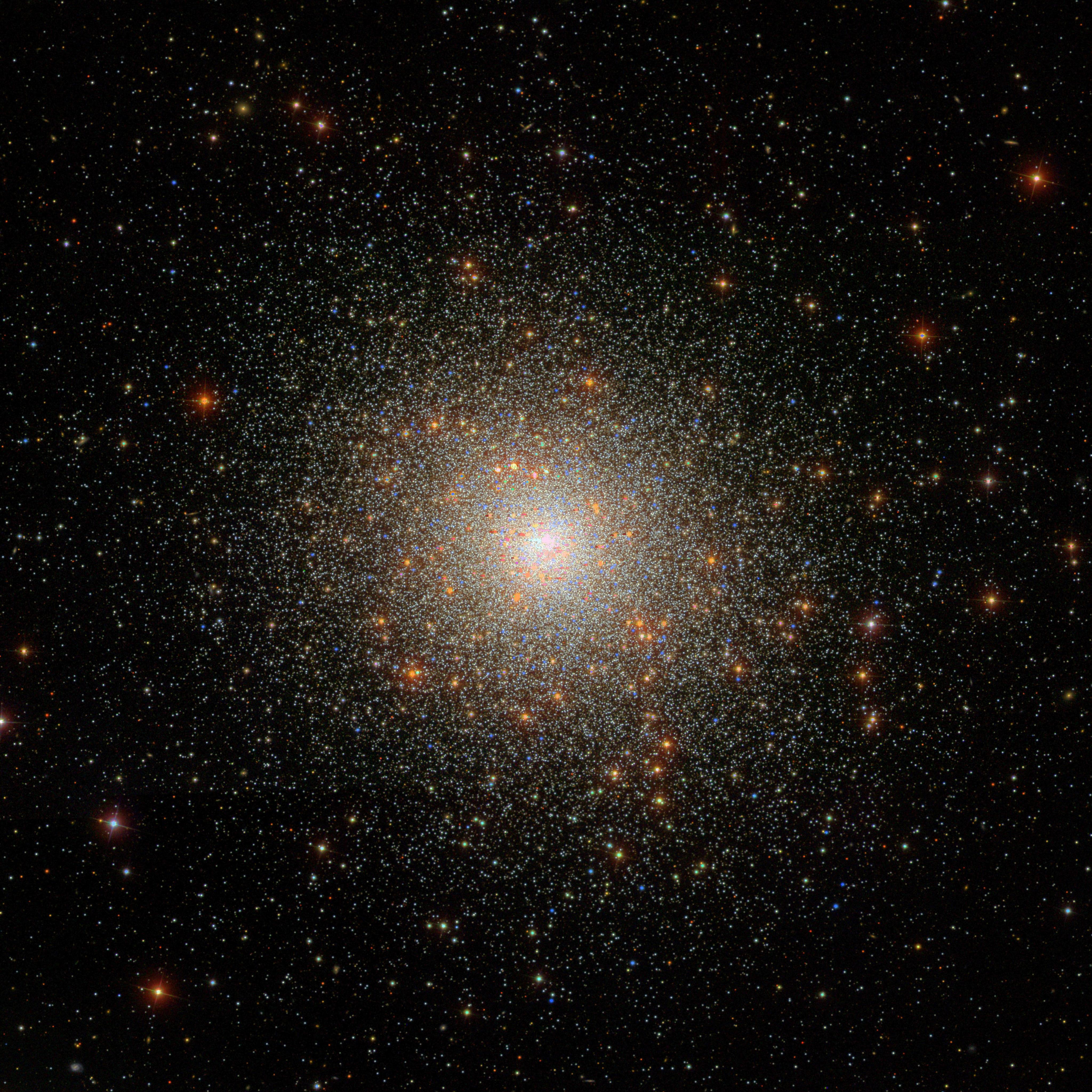 Angle of view: 24' x 24' (0.3515625" per pixel), north is up.